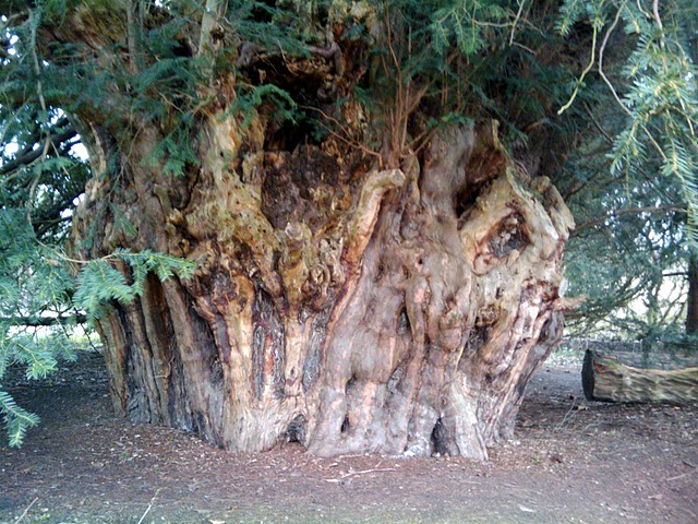 The trunk of the Ankerwyke Yew.